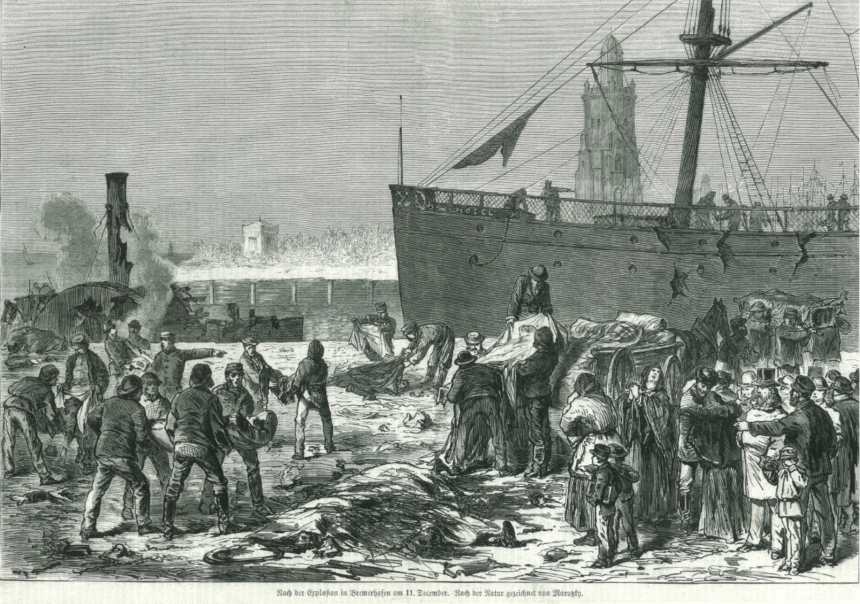 The steamship "Mosel", which was bombed in 1875 in Bremerhaven (Germany) by William Thomas (1830-1875), an american assassin.